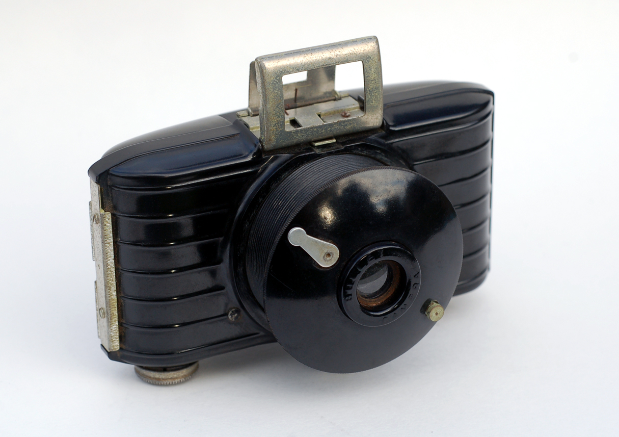 Bakelite camera, made from 1936-42.